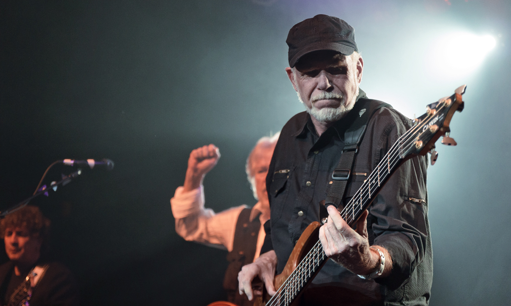 Canadian rock legends Bachman/Turner perform at the Mod Club, on the third night of Canadian Music Week / CMF. Photo and festival coverage at